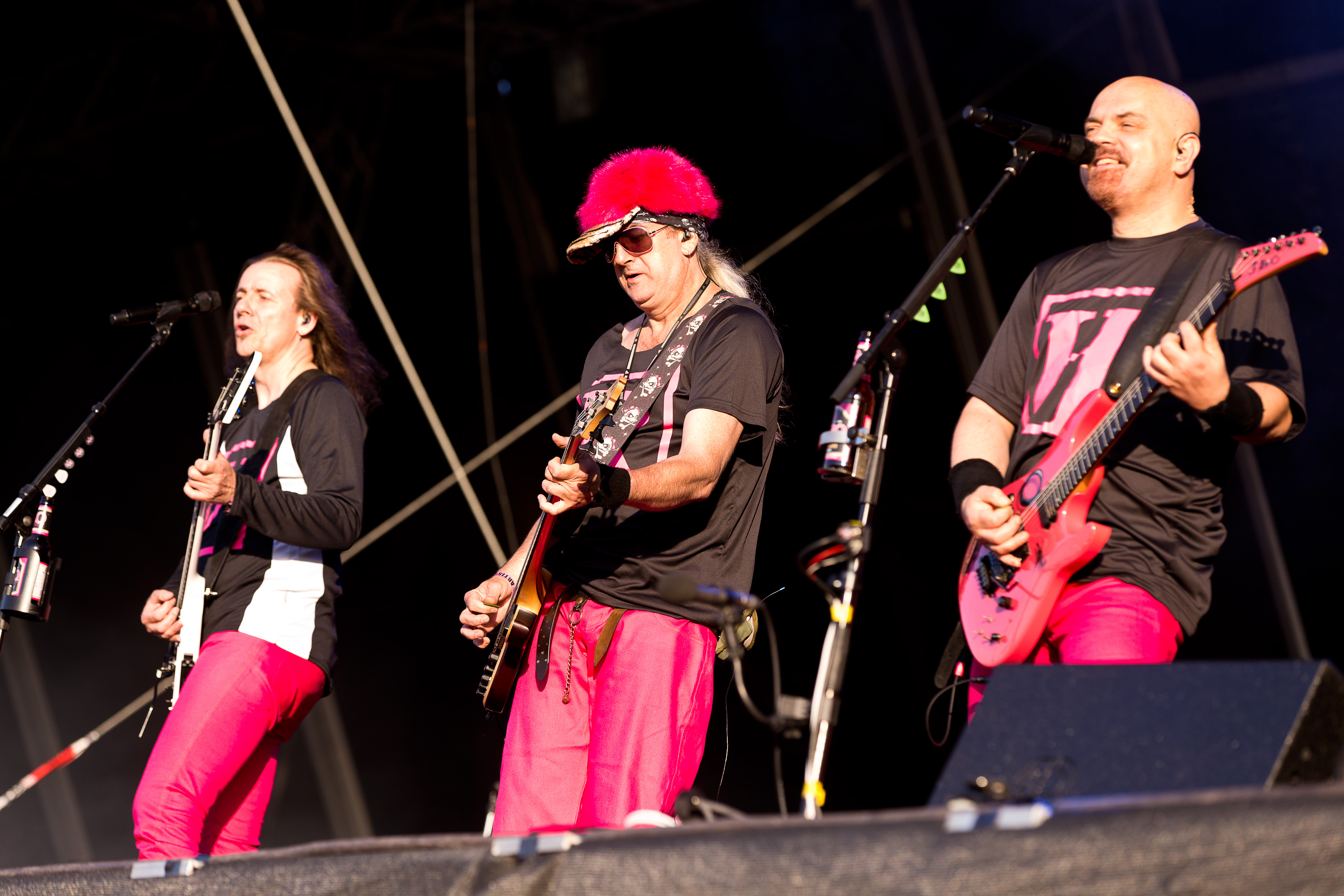 The German fun metal band J.B.O. at the Rockharz Open Air 2016 in Ballenstedt/Germany.